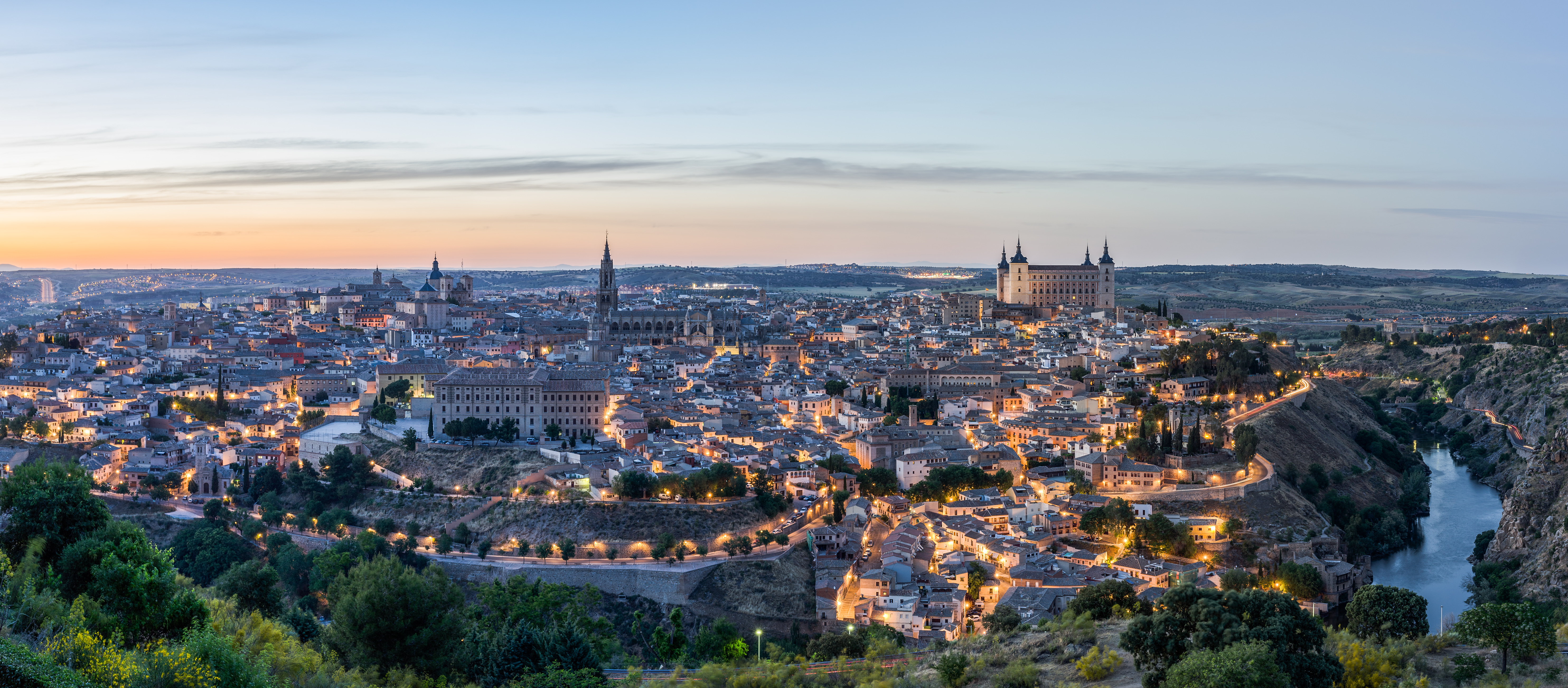 A Panorama of Toledo as seen from Parador Hotel